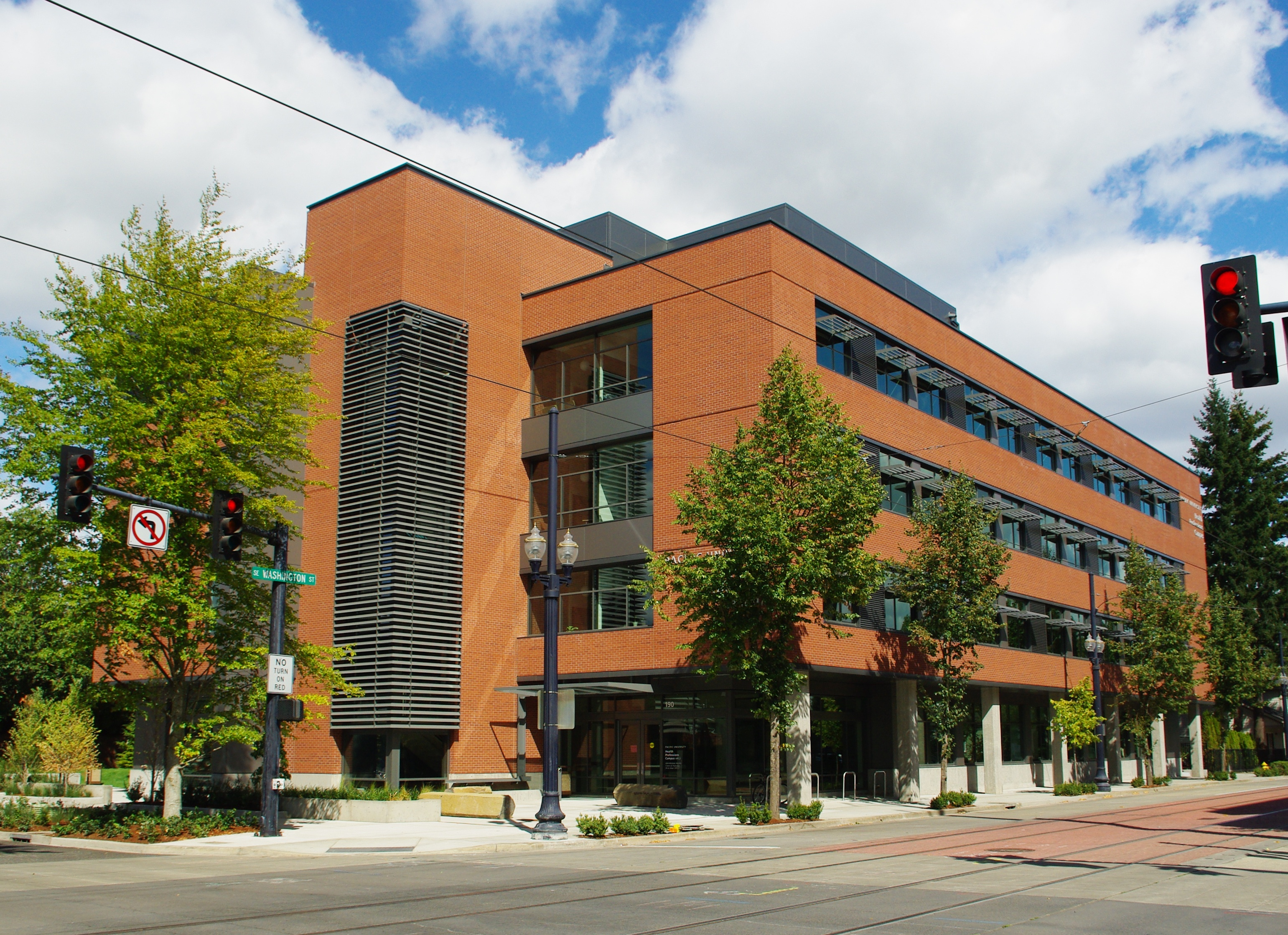 Completed Building 2 at the Pacific University Health Professions Campus in Hillsboro, Oregon.